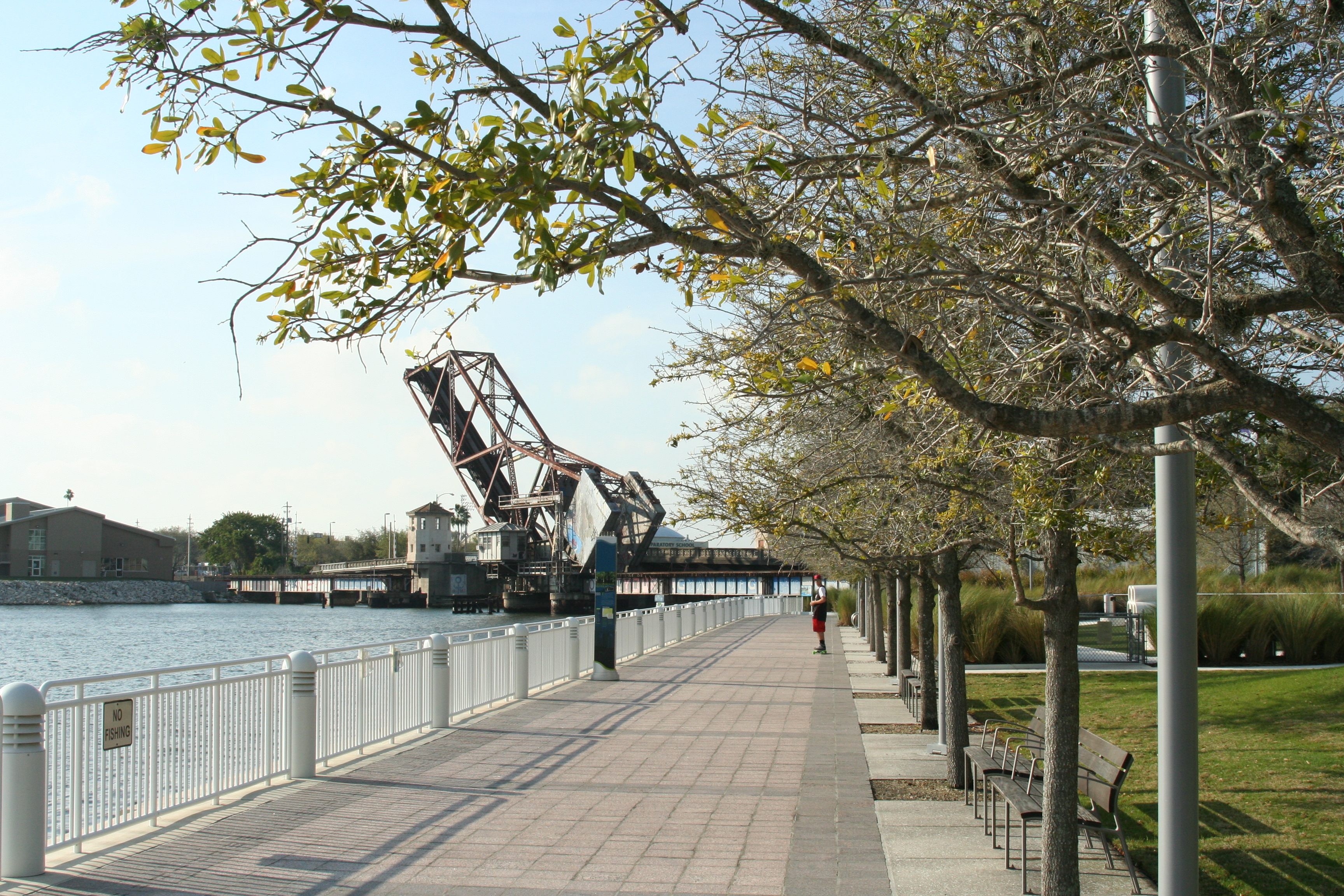 Tampa Riverwalk along Hillsborough River 2012